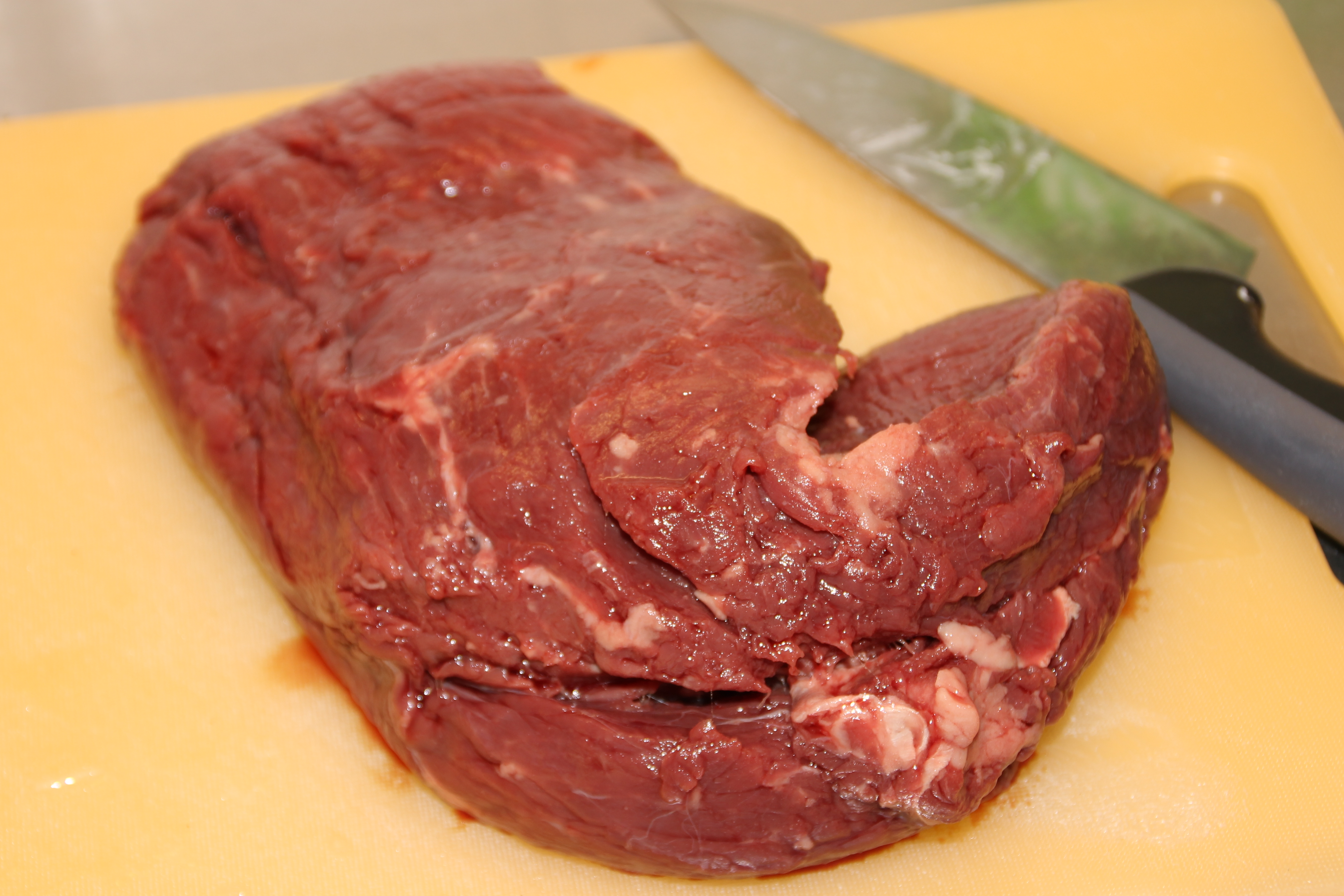 Rostas